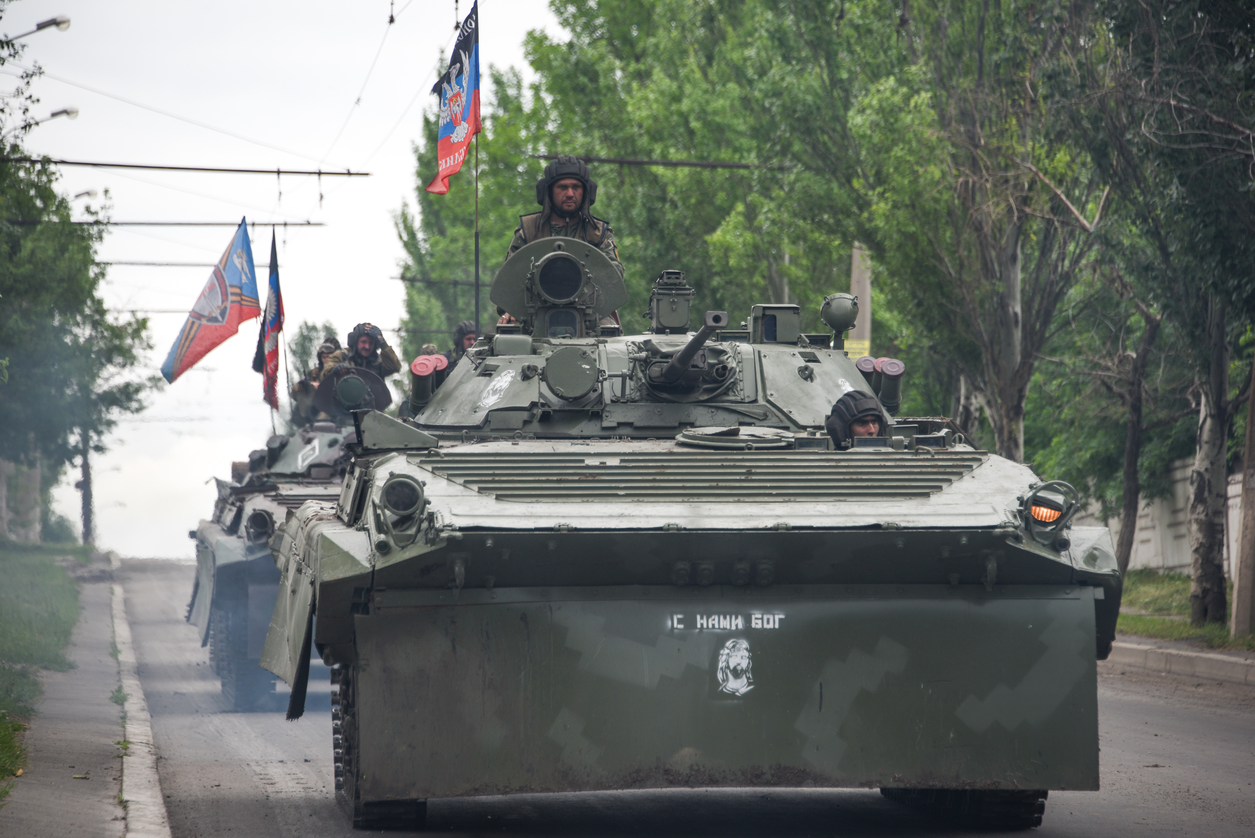 A Russia-backed rebel armored fighting vehicles convoy near Donetsk, Eastern Ukraine, May 30, 2015.